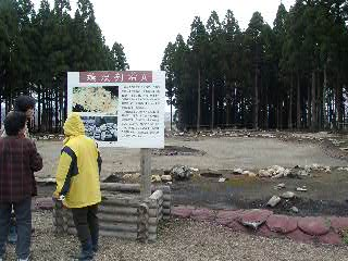 Stone circle A at the Isedotai Site in Kitaakita City, Akita Prefecture, Japan